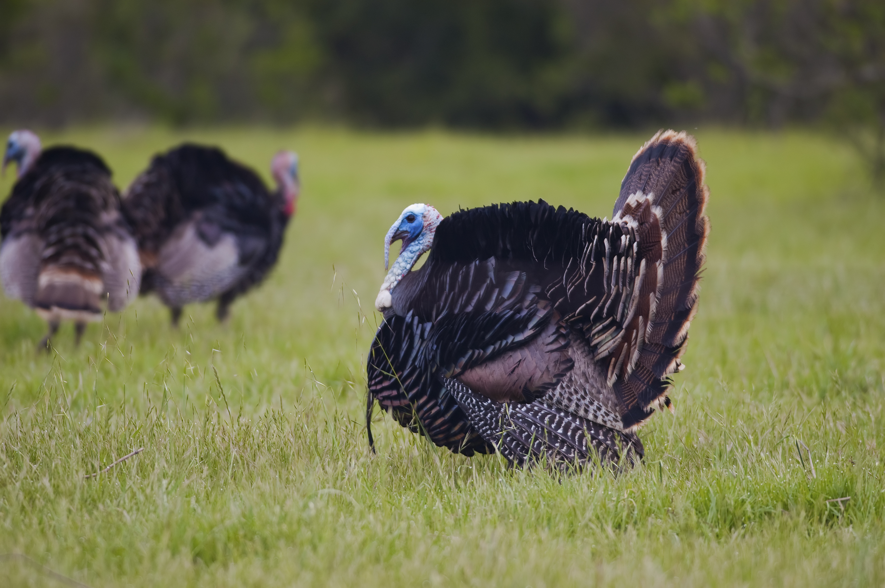 Re-introduced wild turkey from California